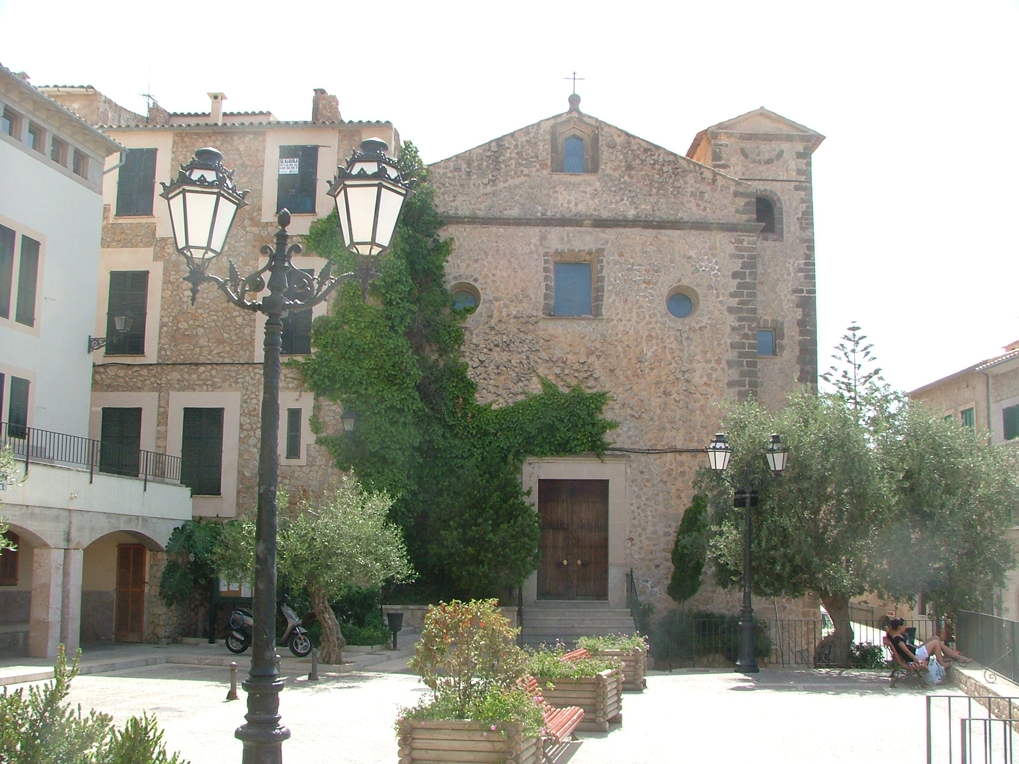 Church (esglesia) of Banyalbufar, Mallorca, Spain